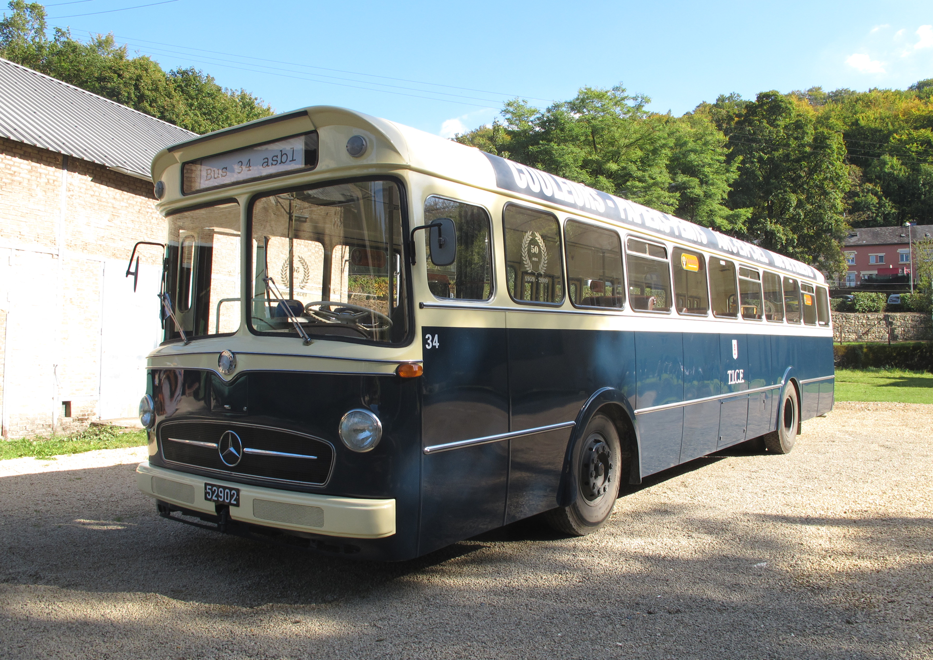 TICE-Bus Nr. 34 (Mercedes O317 from 1959)